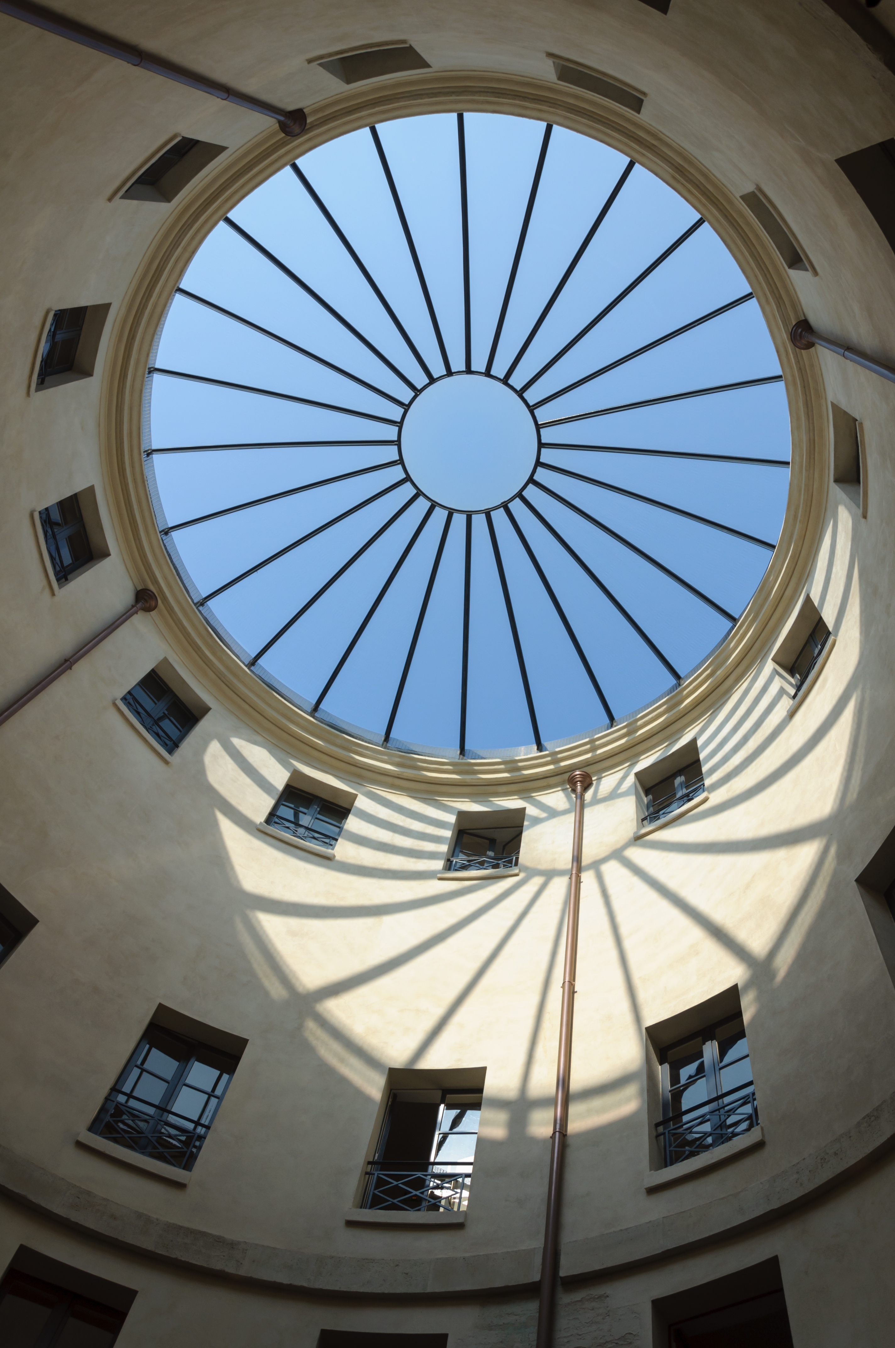 Light and shadow inside the rotonde de la Villette, Paris, France